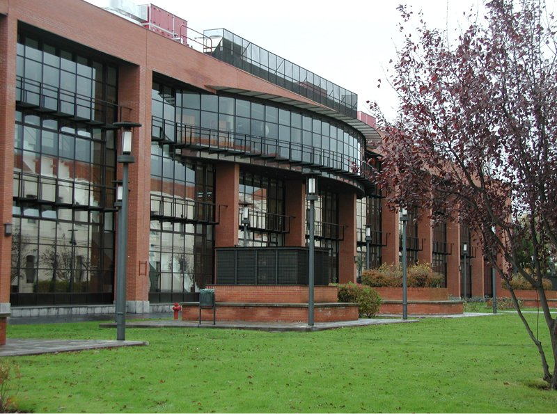 University Carlos III, Getafe, (Madrid), Spain Author: Miguel303xm Date: June 10th, 2005